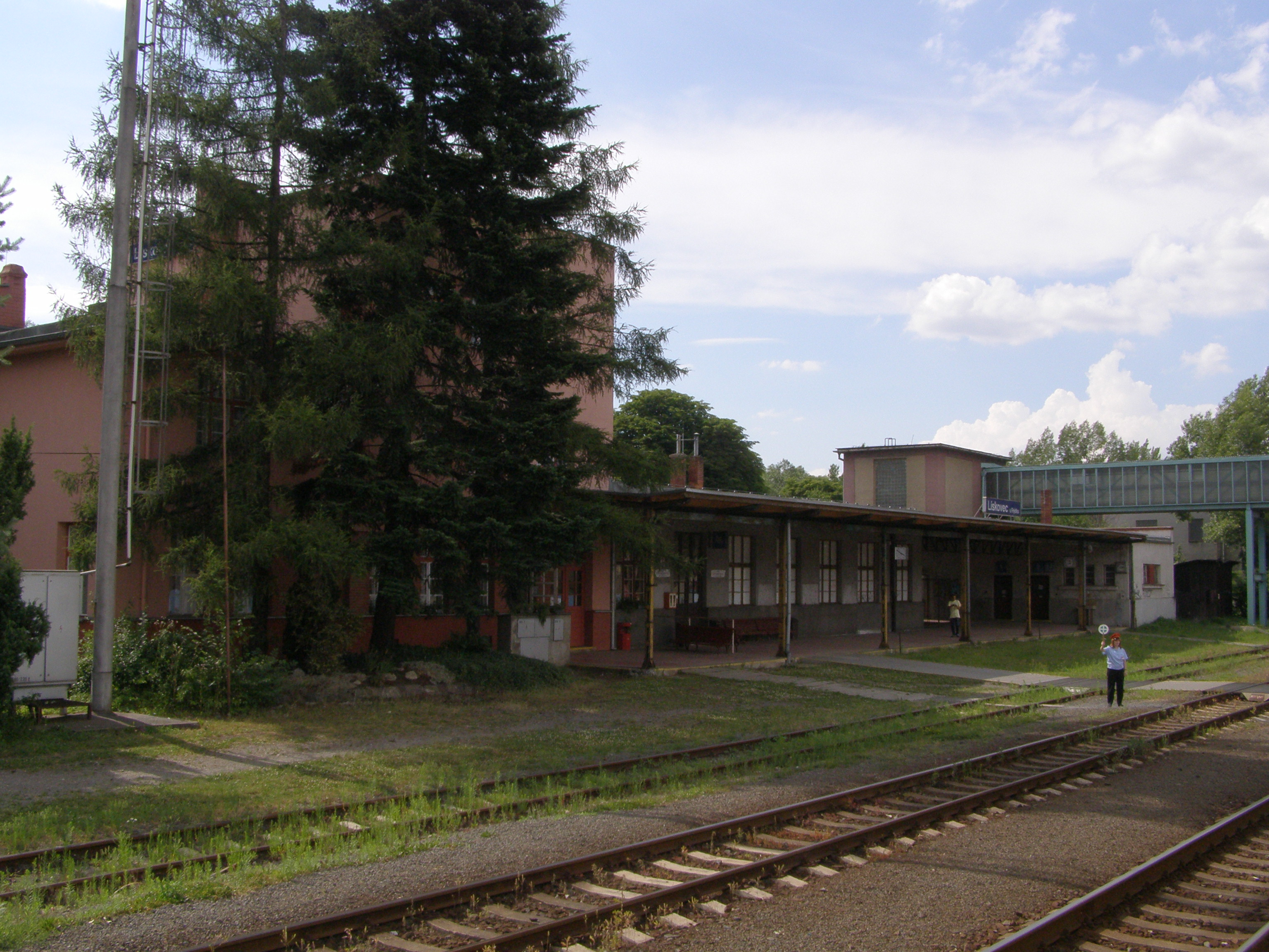 Train station Lískovec u Frýdku